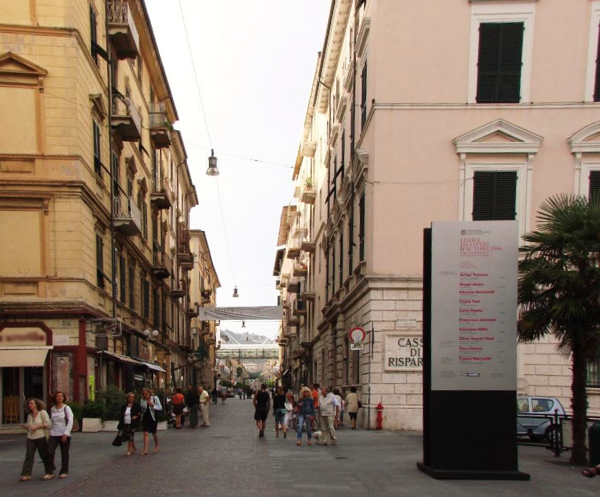 La Spezia Via del Prione